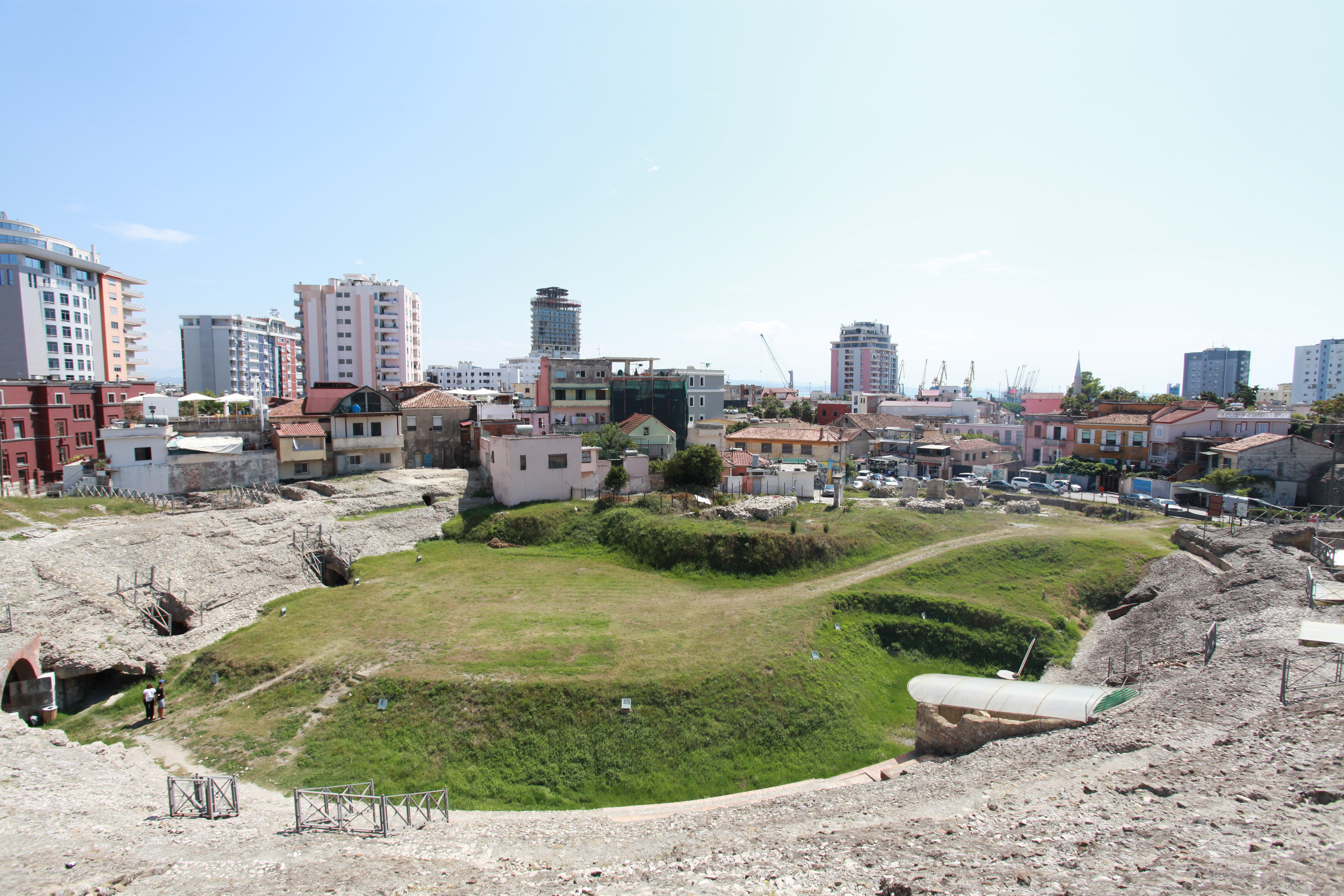 amphitheatre of durres